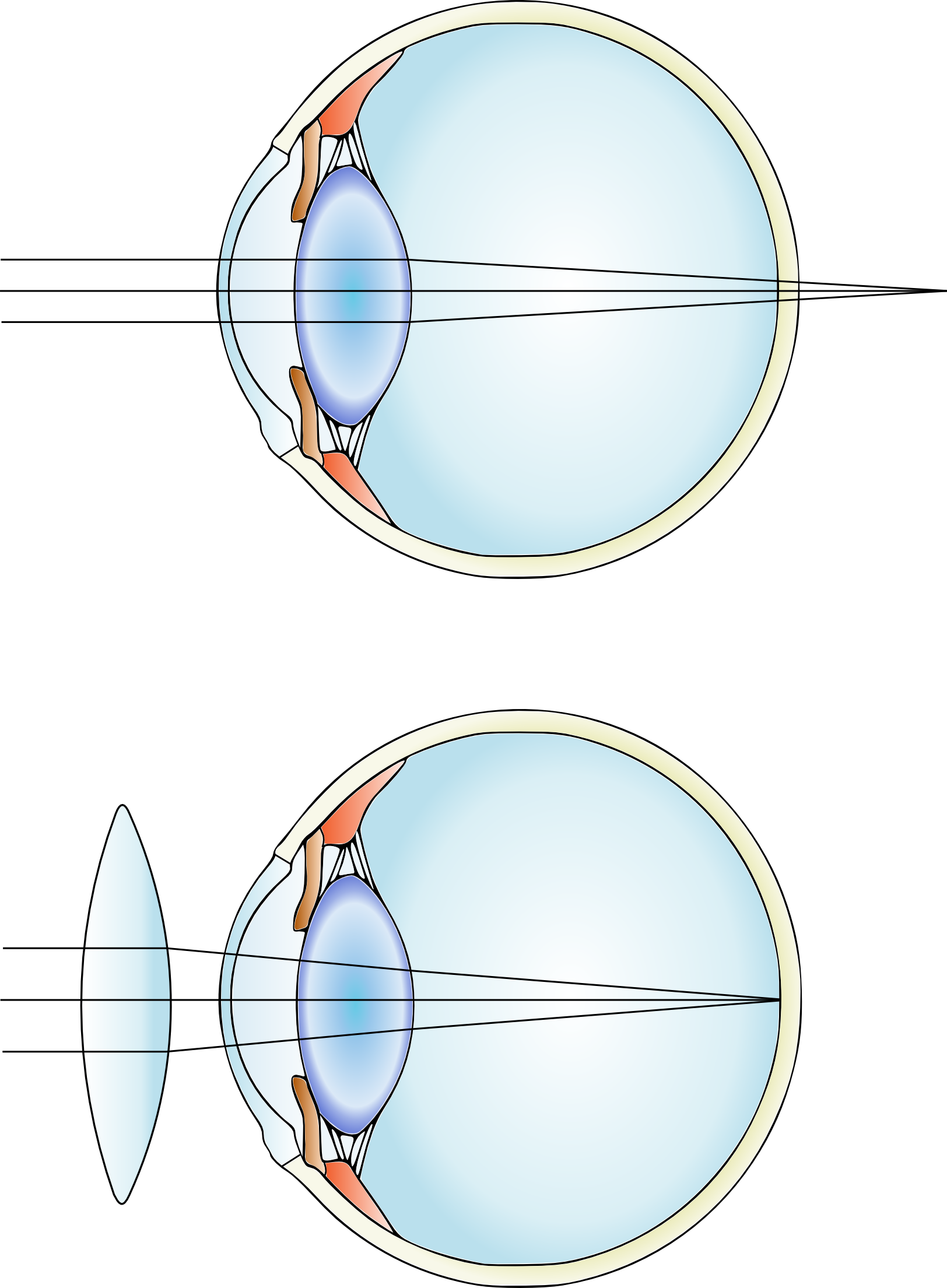 Hypermetropia lens correction